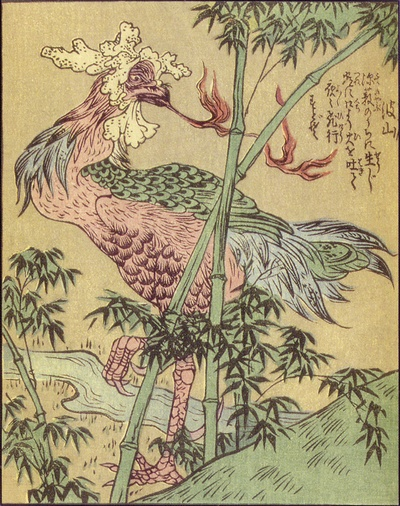 Basan (波山, A large fire-breathing chicken monster) from the Ehon Hyaku monogatari (絵本百物語)